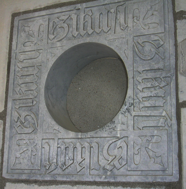 Basque inscription in the façade of Abbadia castle, Hendaye (France), meaning "don't see - don't learn"